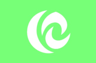 Flag of Niyodogawa Kochi